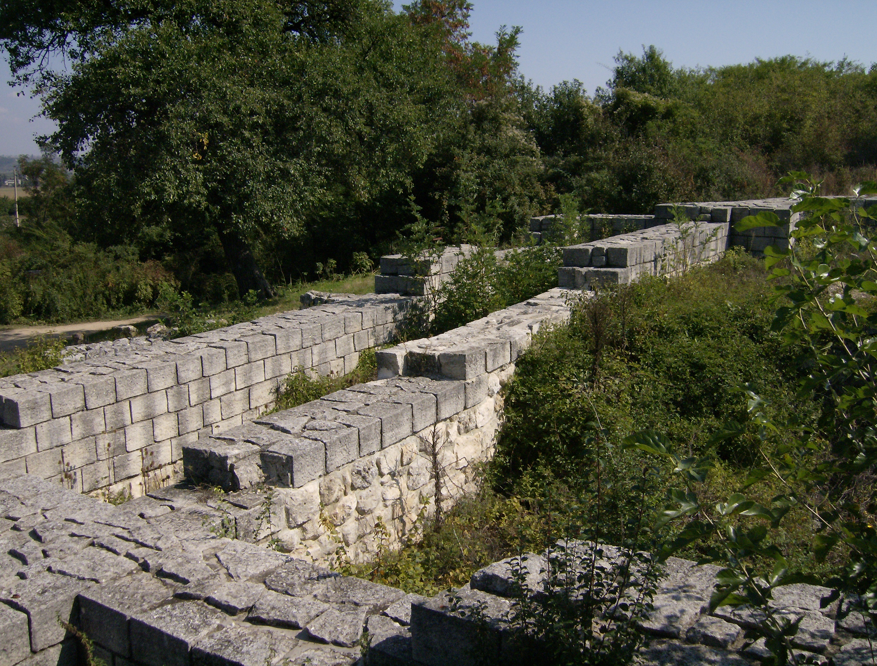 Fortress of Khan Omurtag